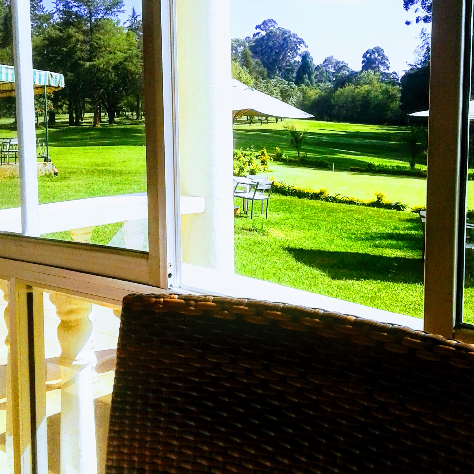 The breakfast room at Eldoret Club, overlooking the golf course